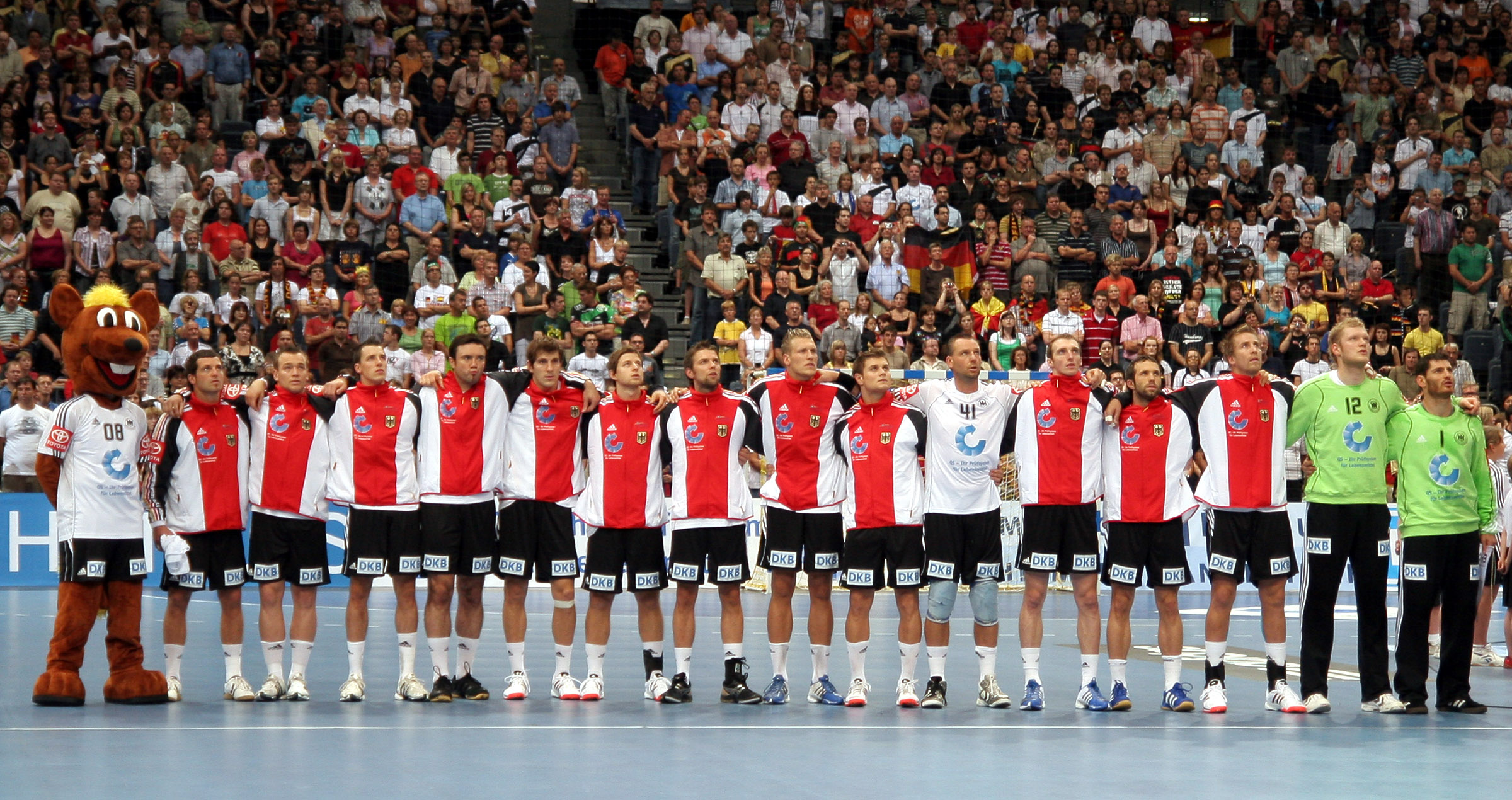 The German national handball team prior the cap Germany vers. Russia, on July 26th 2008 in the Lanxess-Arena of Cologne